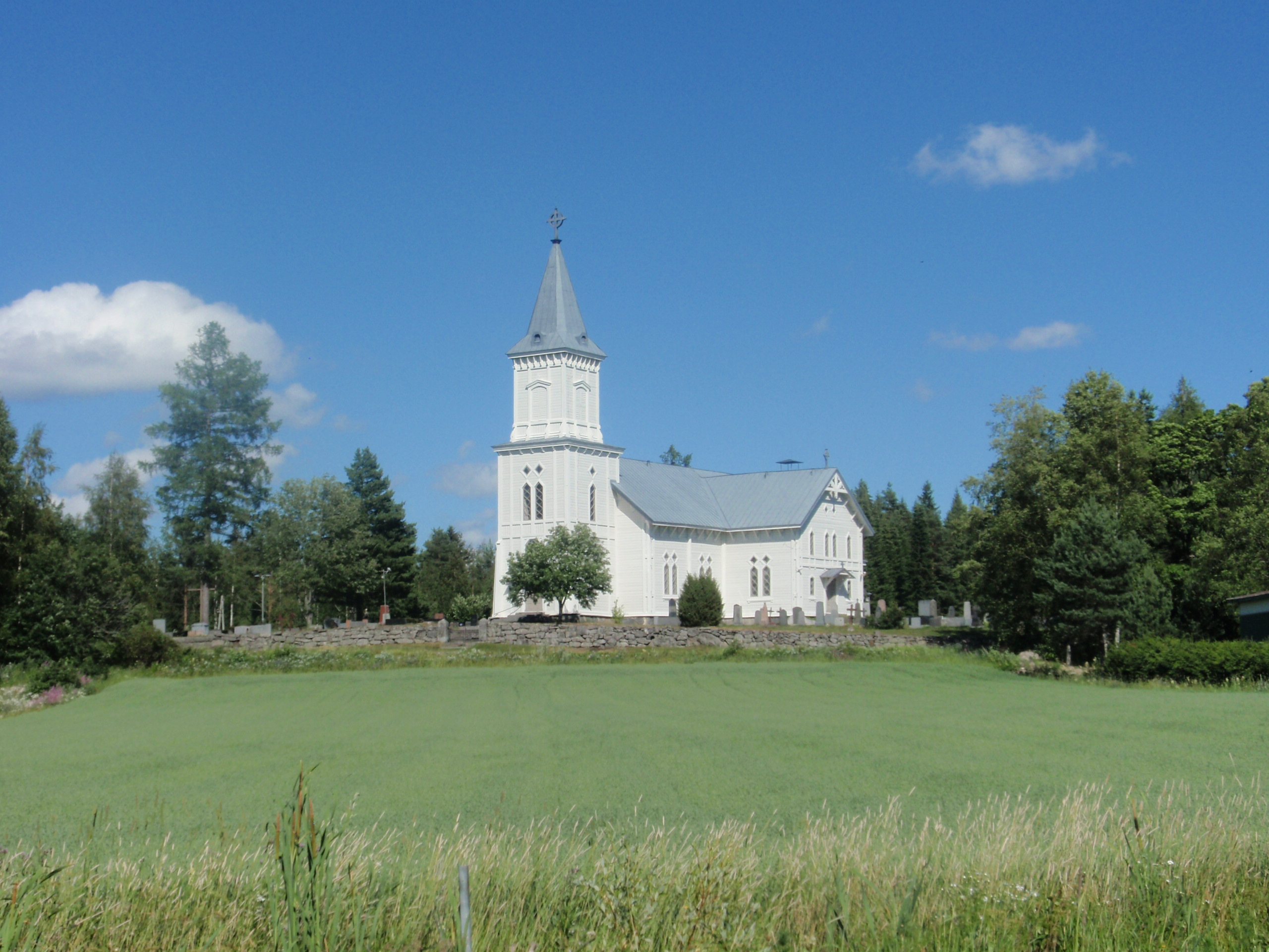 Kauvatsa Church in Kokemäki, Finland. Picture taken from west side of the church.